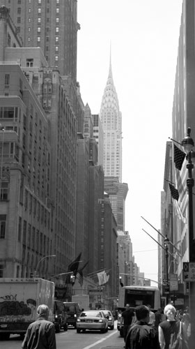 Photo was taken at 50th Street Lexington Ave, facing toward south and including a view of the Chrysler Building